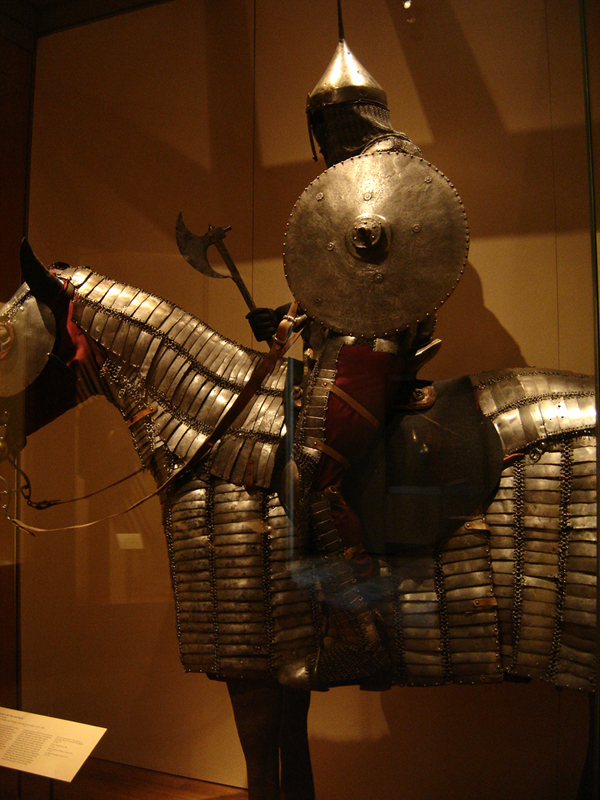 Armure militaire iranienne datant de 1450 ap JC conservé au New York Metropolitan Museum of Art (Armors for Man and Horse. Steel, leather. Syrian, Iranian and Turkish, comprehensively about 1450-1550. The Metropolitan Museum of Art, New York.)